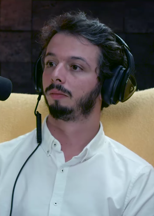 Moisés Ferreira, Portuguese psychologist and Member of Parliament.